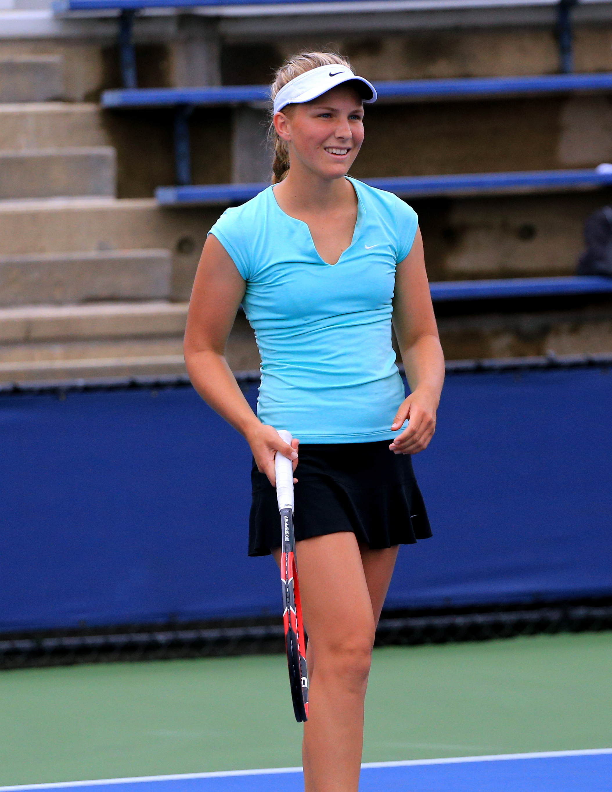 Maddison Inglis at the 2015 US Junior Open